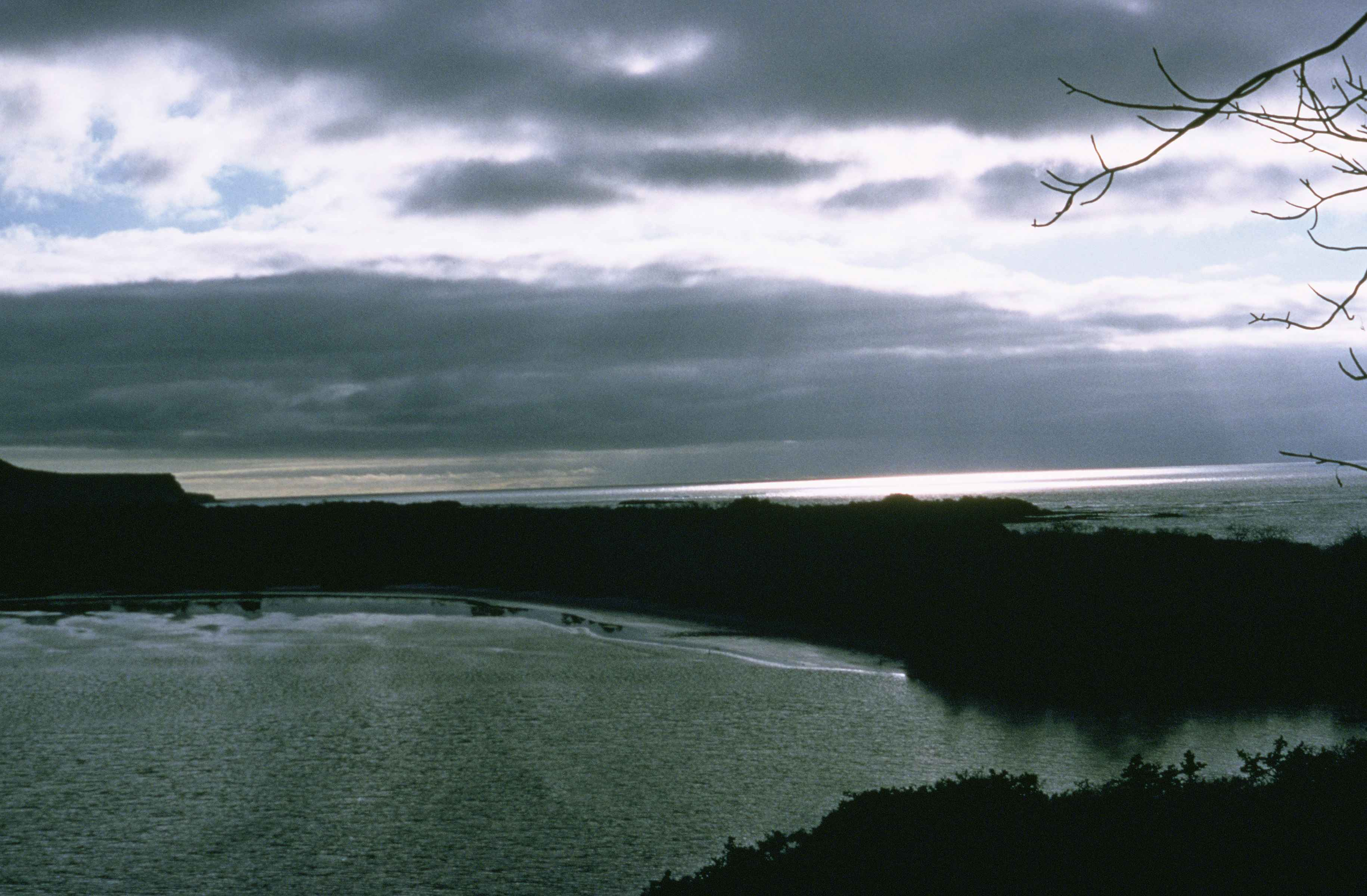 Image title: Galapagos islands Image from Public domain images website